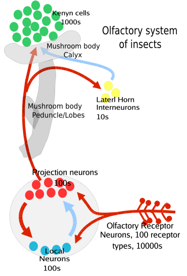 Joby Joseph, Drawn with inkscape.